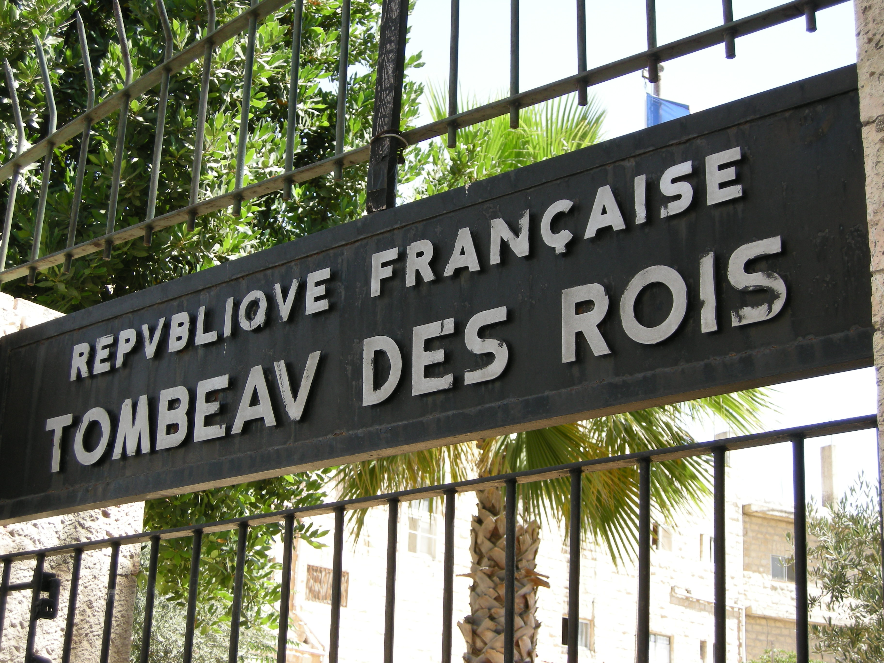 Siur_wikipedia_in__Jerusalem